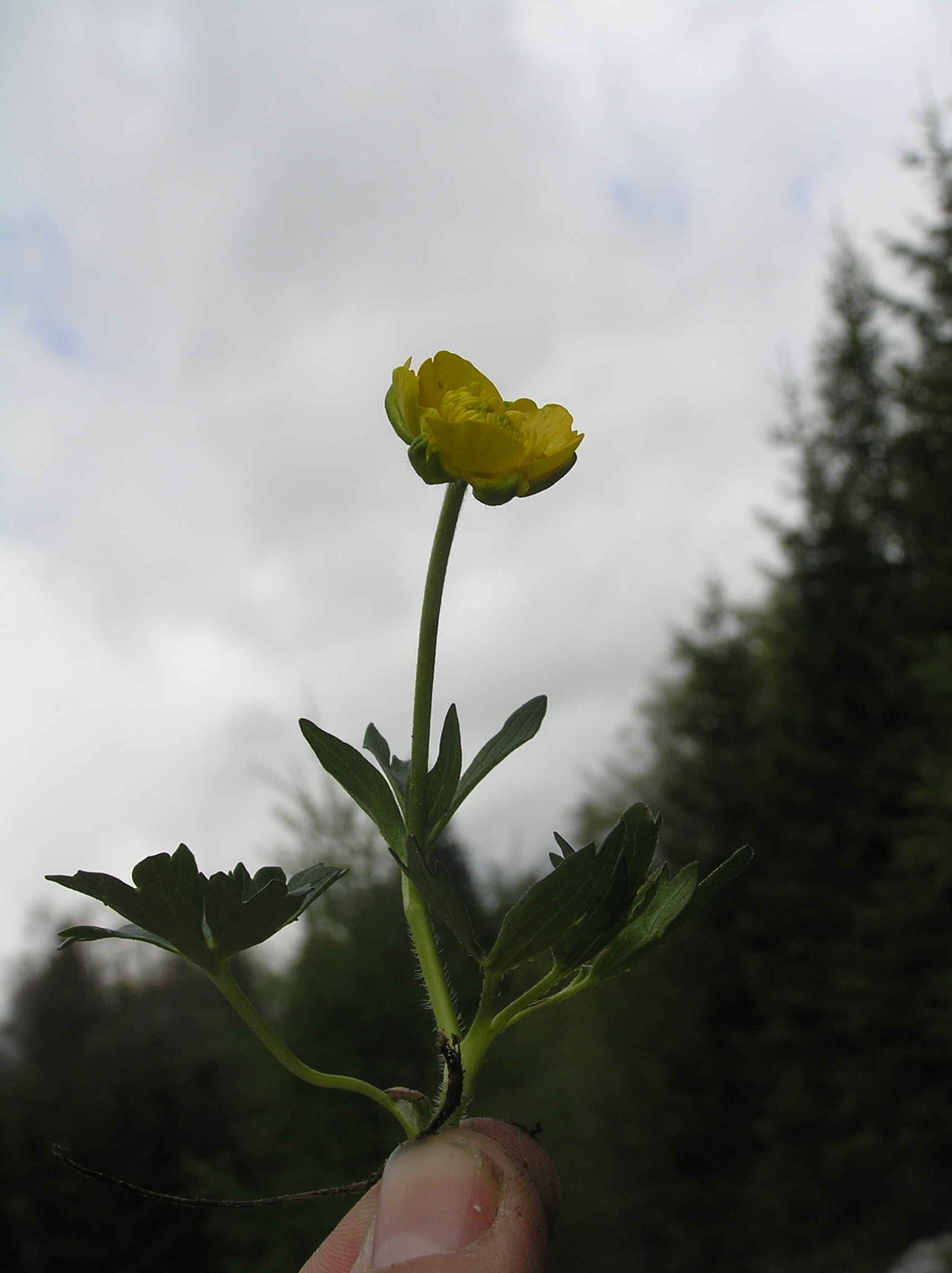 Ranunculus montanus, Austria, Alps, the mountain Schneeberg near Wiener Neustadt